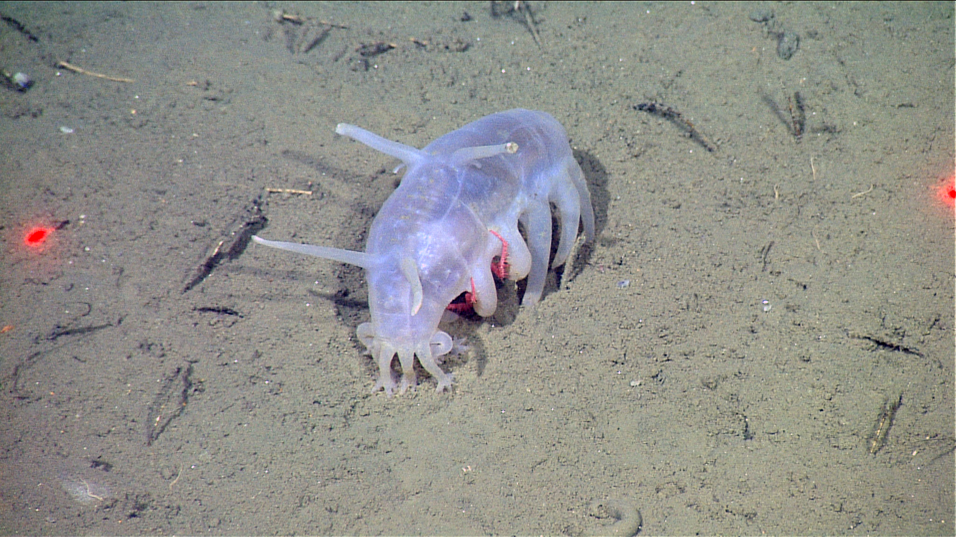 A sea cucumber (Scotoplanes globosa) appearing to "shelter" the crab (family Lithodidae). The recorded raw location and environmental measurements at time of capture are Lat= 36.694919 Lon= -122.297988 Depth= 1282.34 m Temp= 3.145 C Sal= 34.523 PSU Oxy= 0.789 ml/l Xmiss= 87.66%. In 2004, the ship Med Taipei, lost 15 shipping containers just outside of Monterey Bay. Later that same year, MBARI discovered one of these containers resting on the seafloor at 1280 meters below the surface. From March 8-10, 2011, MBNMS and MBARI scientists revisited this shipping container to document its condition and collect sediment cores and organisms for further study.